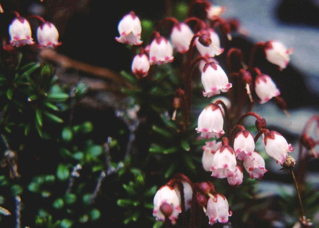 Phyllodoce nipponica var. nipponica seen in Mount Shiomi